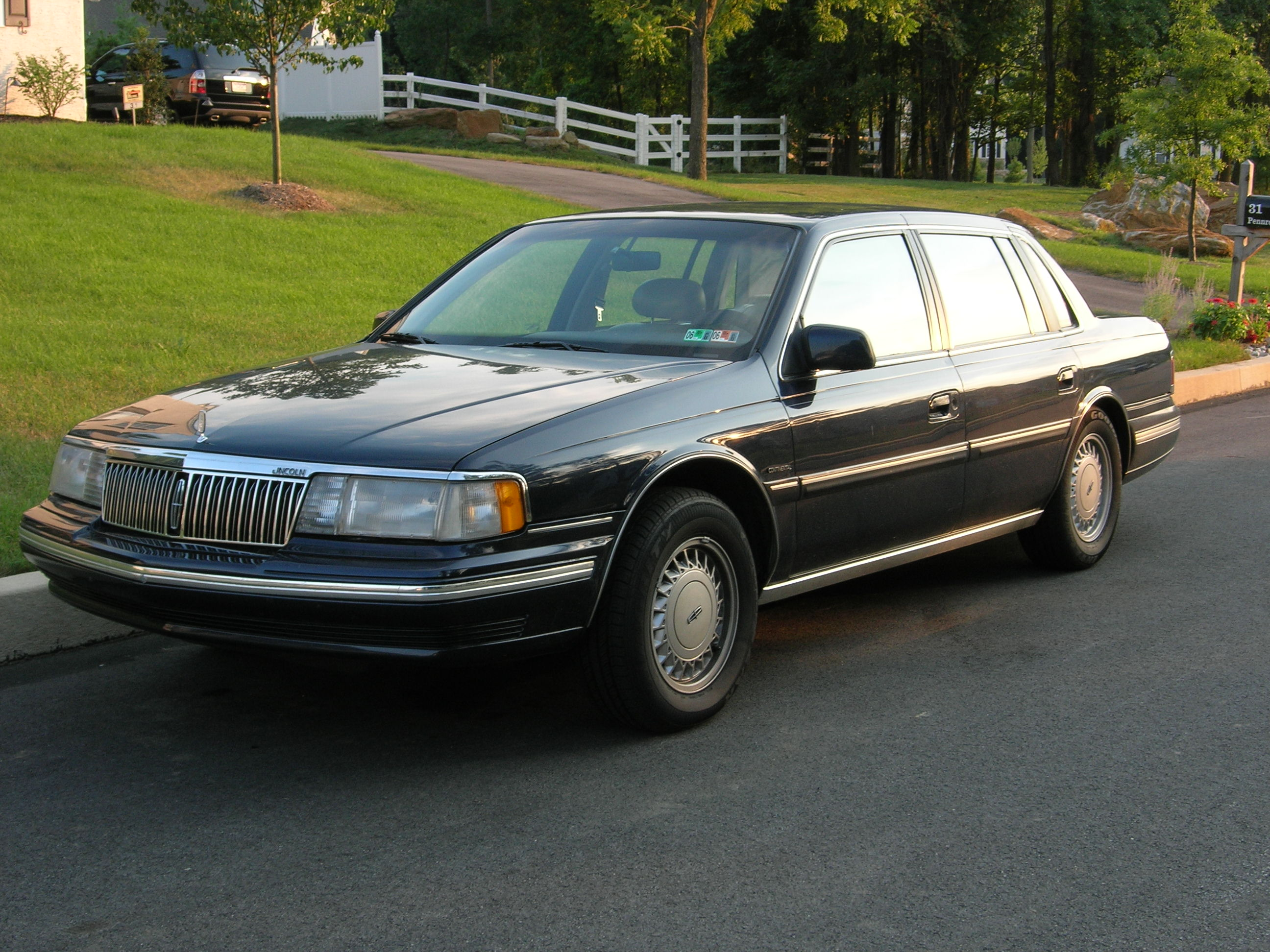 1991 Lincoln Continental. Created on my own camera